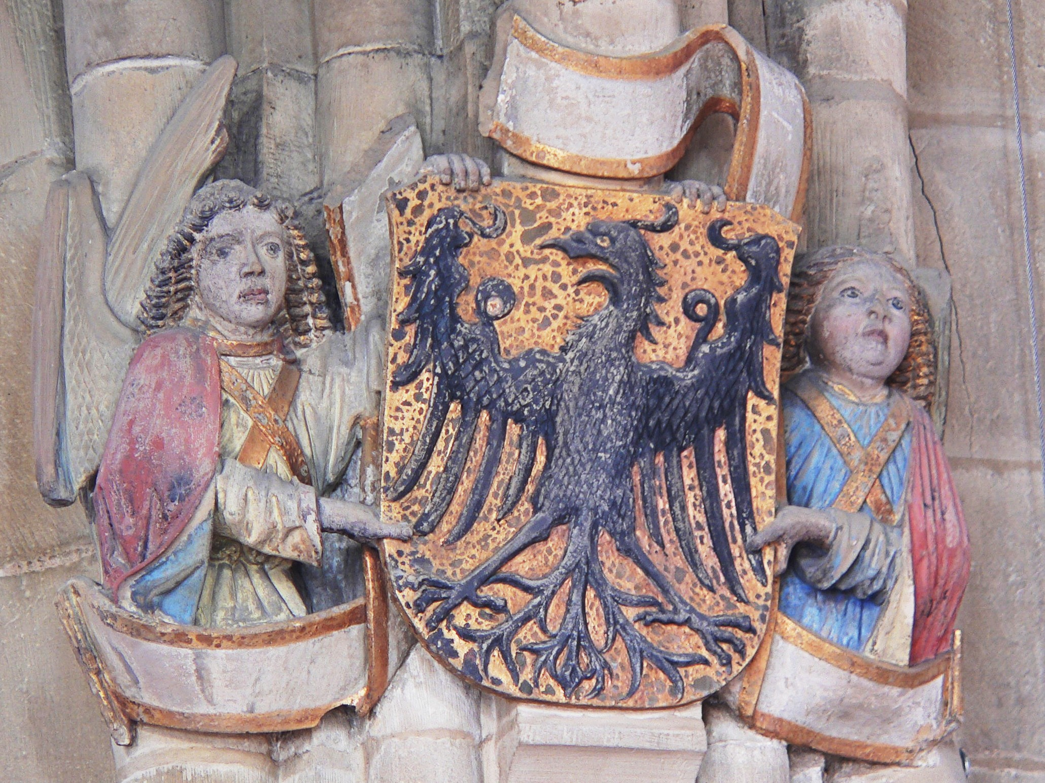 Old Coat Of Arms in the Church Kilianskirche of Heilbronn, Germany